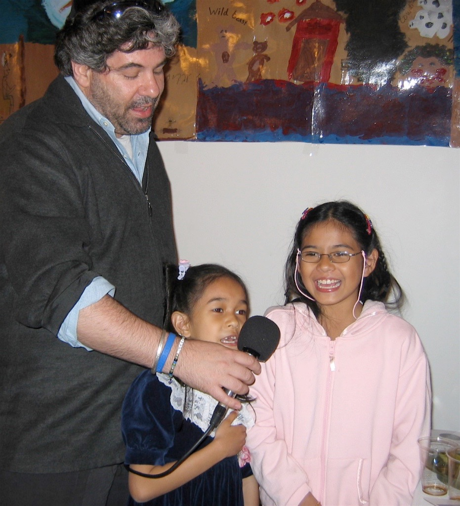 Avrum Rosensweig with children at Community Passover Seder at Habonim (2014)